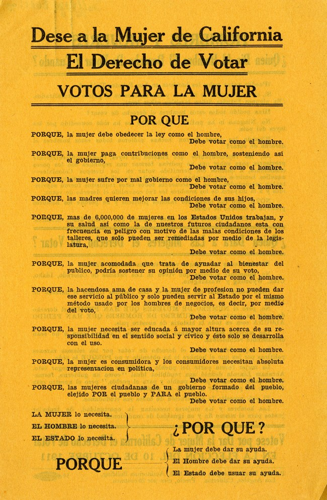 Pamphlet that was translated to Spanish during suffrage movement.